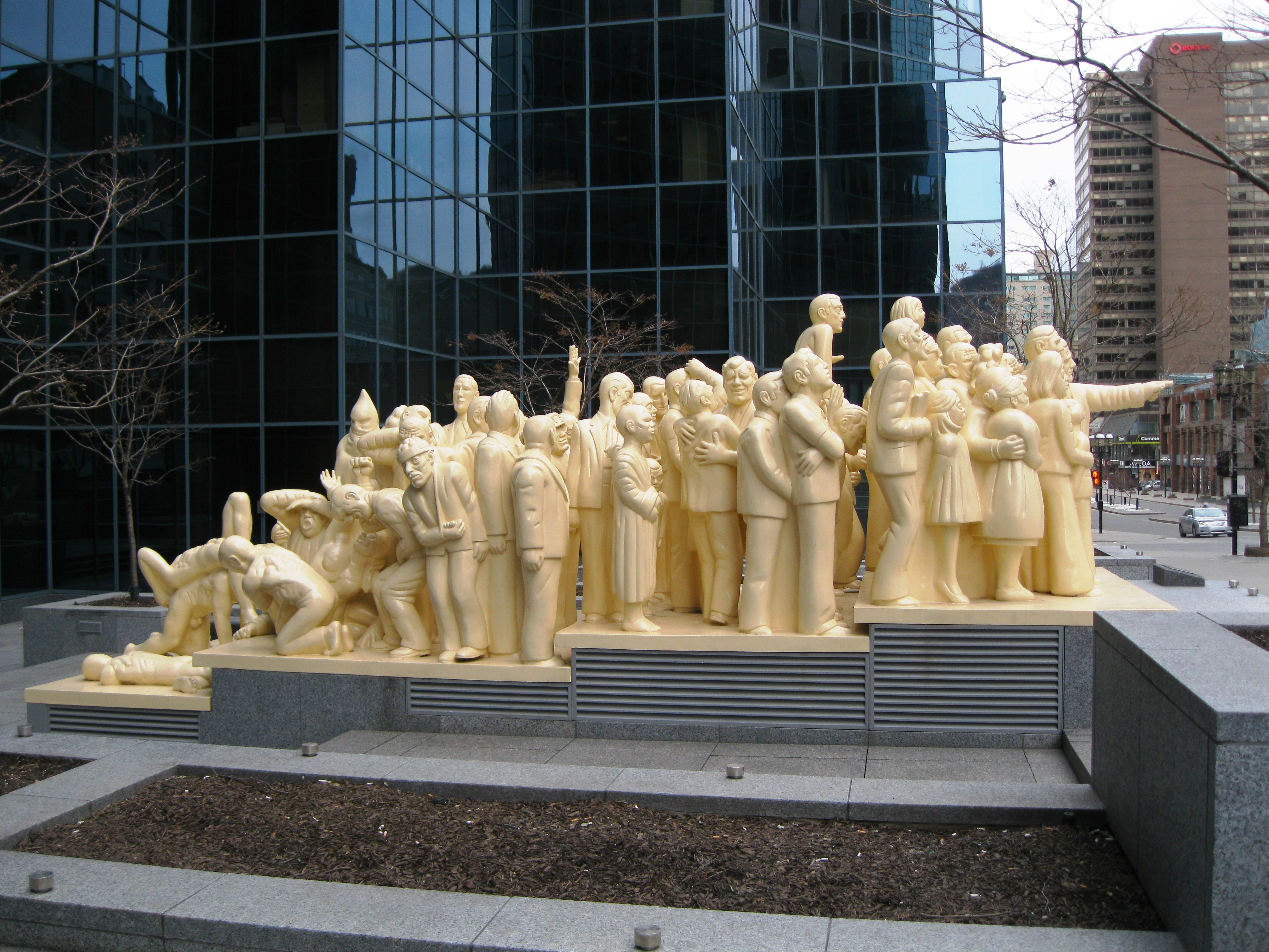 The Illuminated Crowd